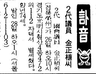 newspaper script informing the death of Kimjeongsik(1915)